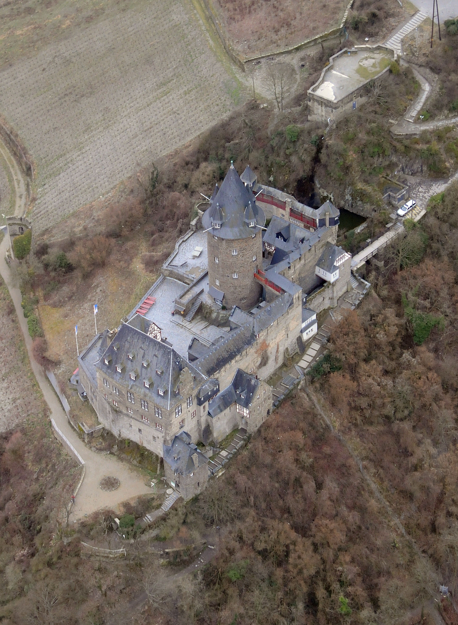 Aerial photograph of Stahleck Castle in Bacharach, northern aspect